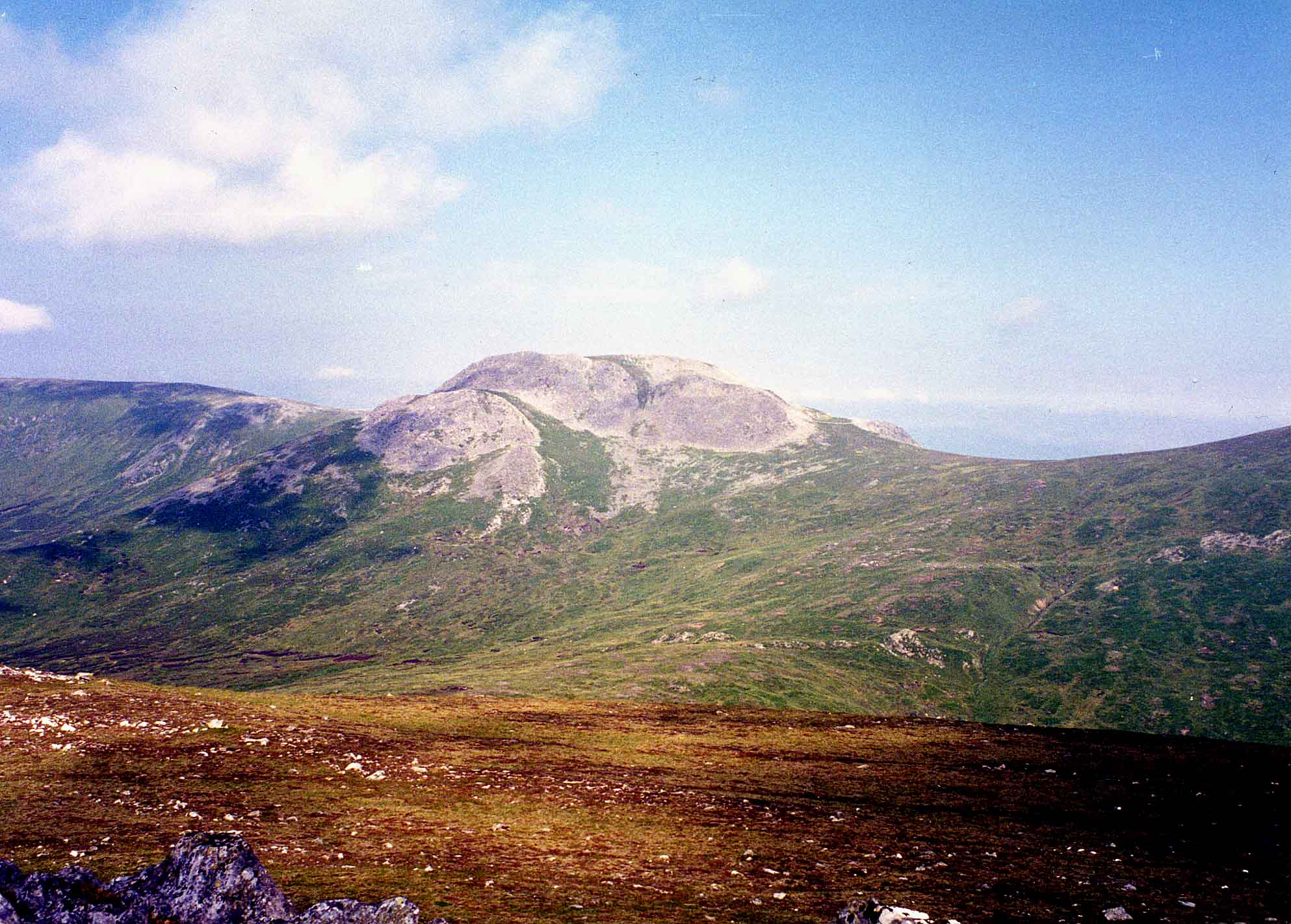 Personal photo taken by Mick Knapton